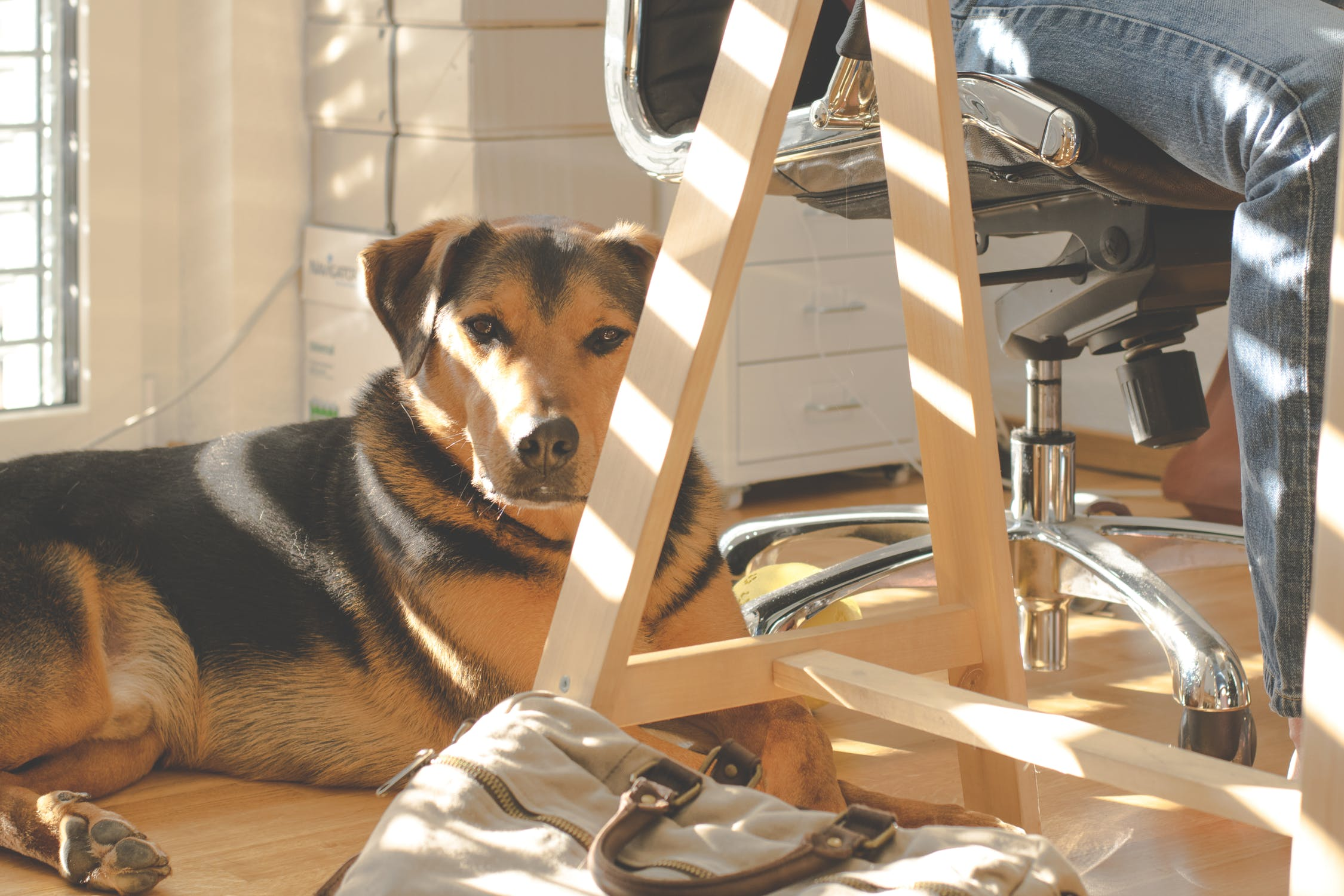 ESA's in the workplace